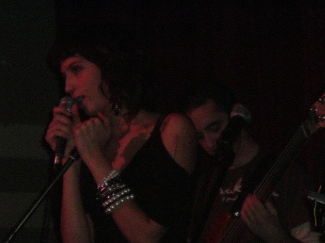 Taken from Shira Gavrielov's concert, held at Cafe Bialik in Tel Aviv, December 2nd, 2009